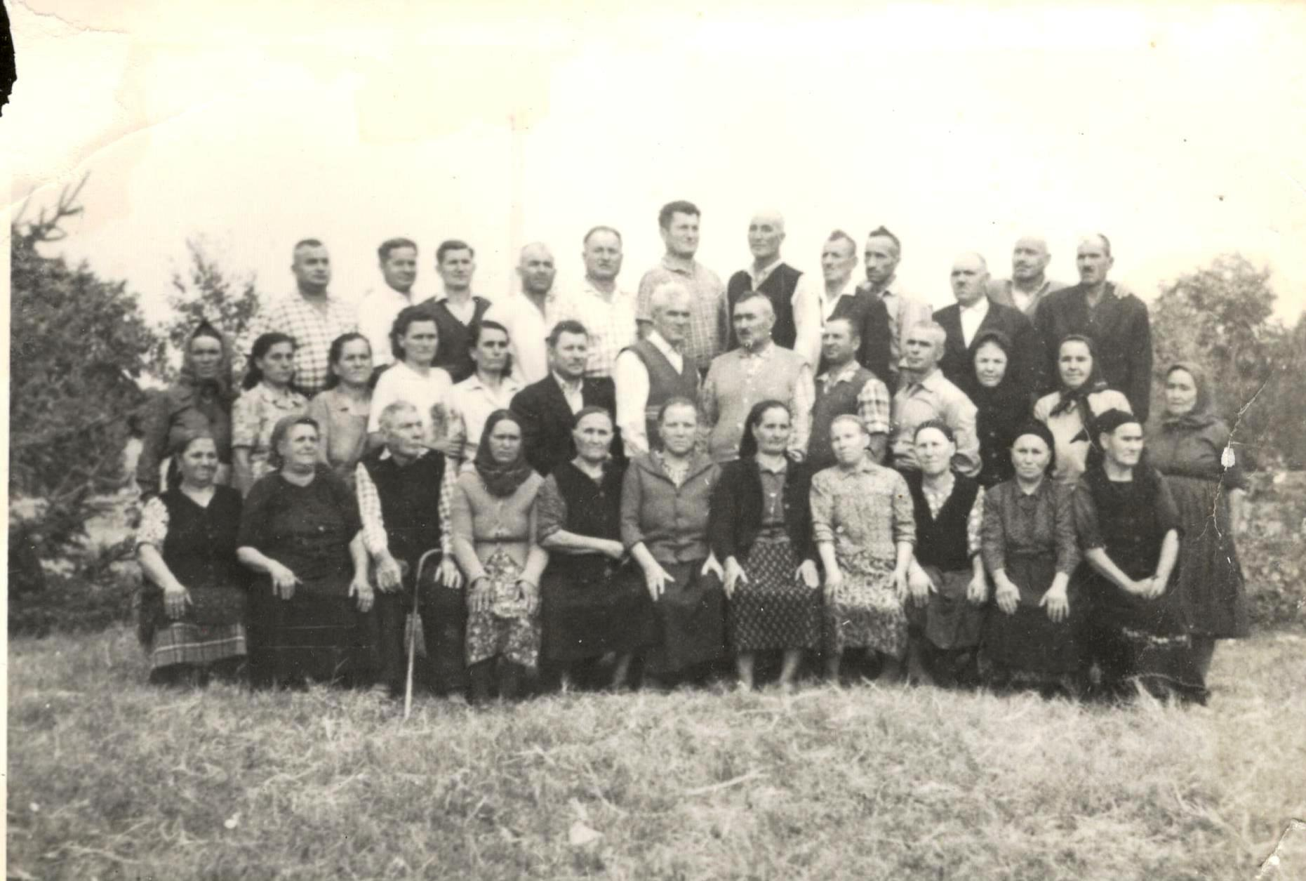 Cooperators that established the Agricultural Labour Cooperative Farm in Gorichevo, Razgrad province, 1945.